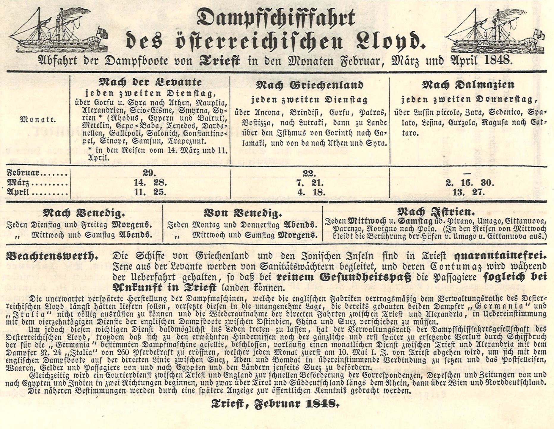 Advertisement of the Austrian Lloyd in the journal Illustr. Zeitung 1848 Nr. 242